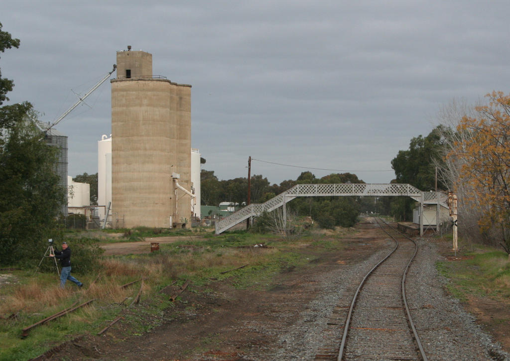 Numurkah railway station, Victoria overview. Looking south, platform to the right, former yard to the left. Turntable left and behind, Picola line went off behind and to the right.